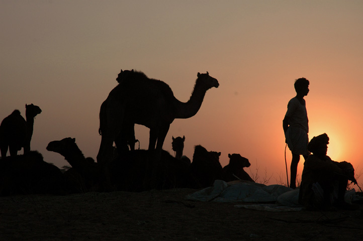 My last posting from Pushkar Camel Fair this year